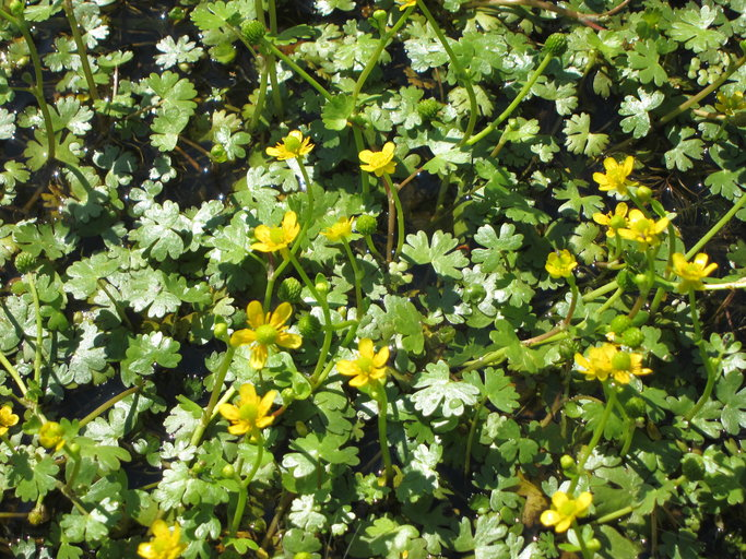 Ranunculus gmelinii, northeast of Wildhorse, Elko County, Nevada, USA. This photo is in the public domain and may be freely used for any purpose.